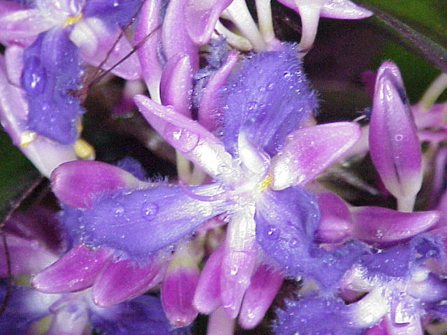 Species: Cochliostema relutinum Family: Comm. Image No. 1